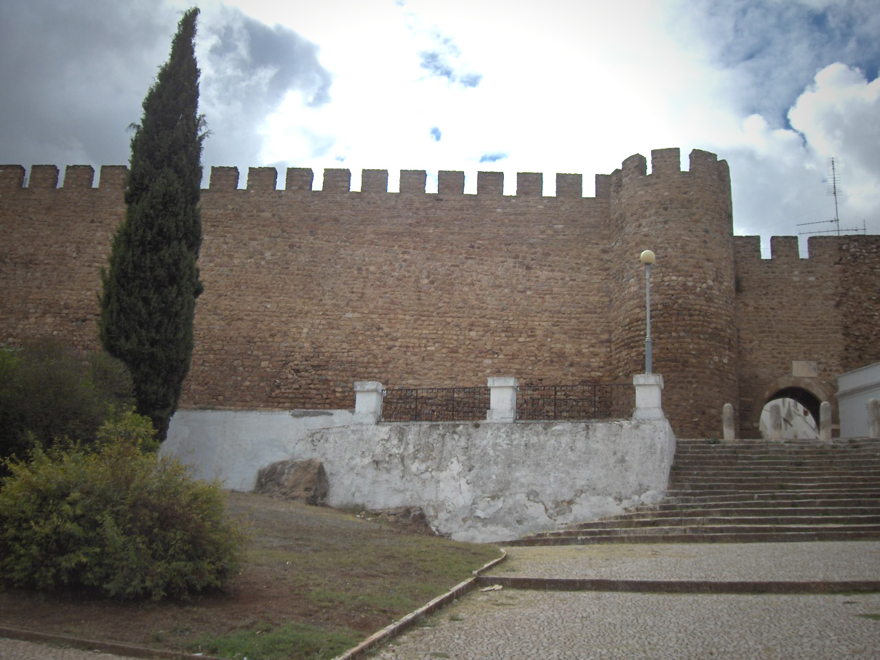 City walls, Estremoz, Portugal